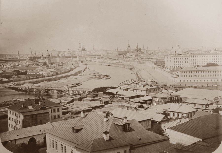 View from the hill Vshivaya.